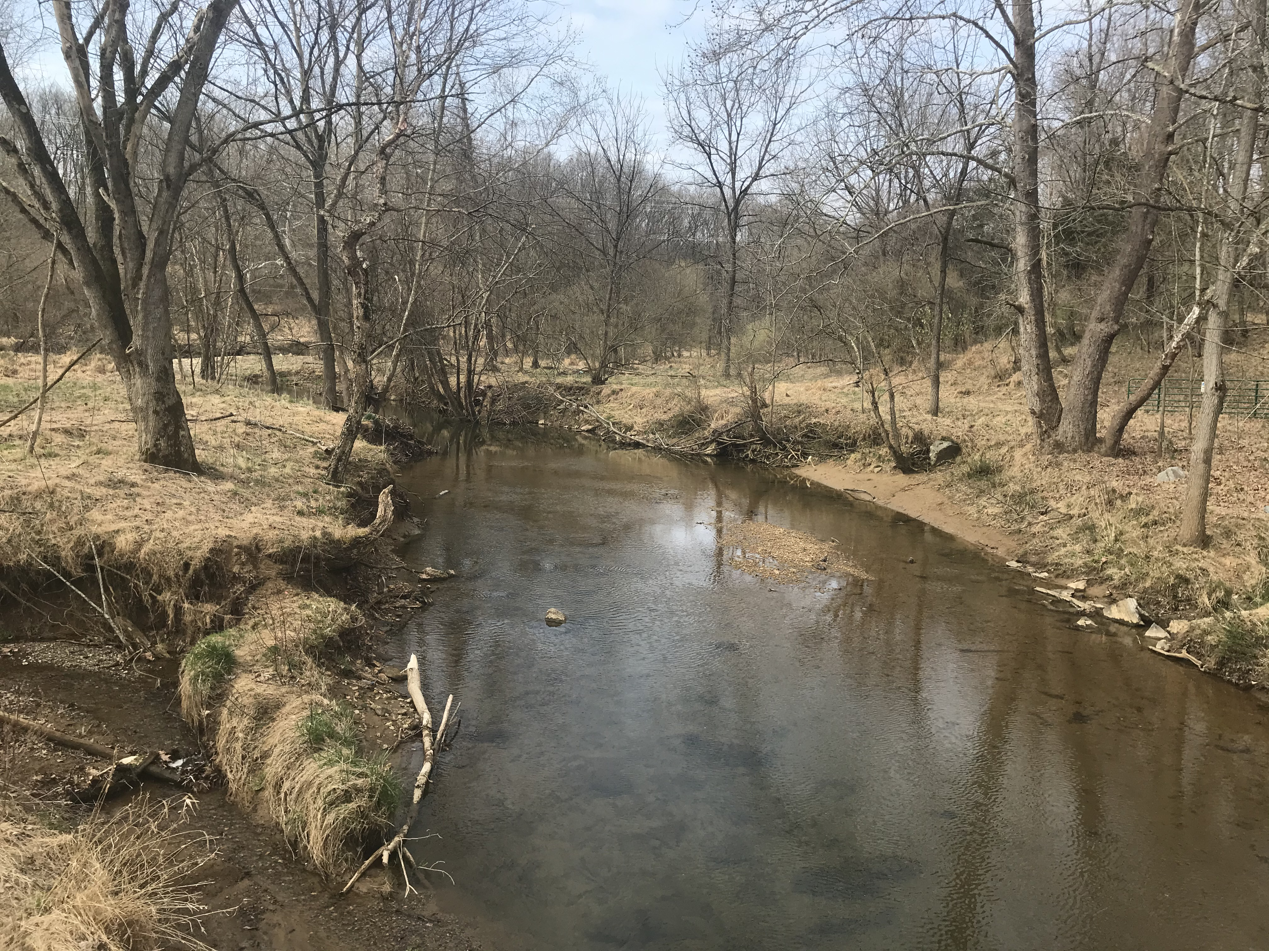 This is a view of Muddy Branch (a stream that feeds into the Potomac River) from the small bridge where it passes under Quince Orchard Road in North Potomac, Maryland, USA.